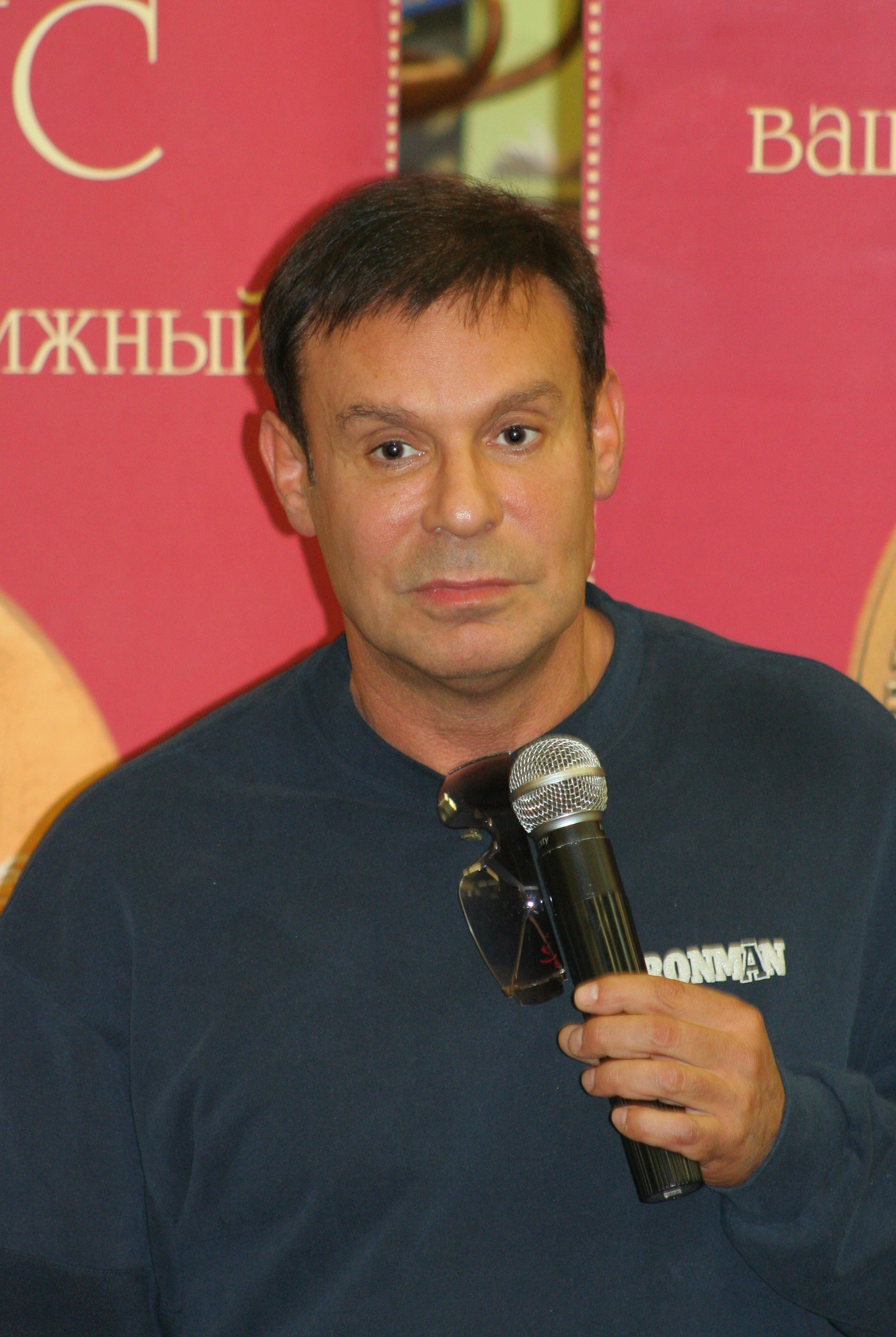 Efim Shifrin, a russian actor, during a presentation in Moscow